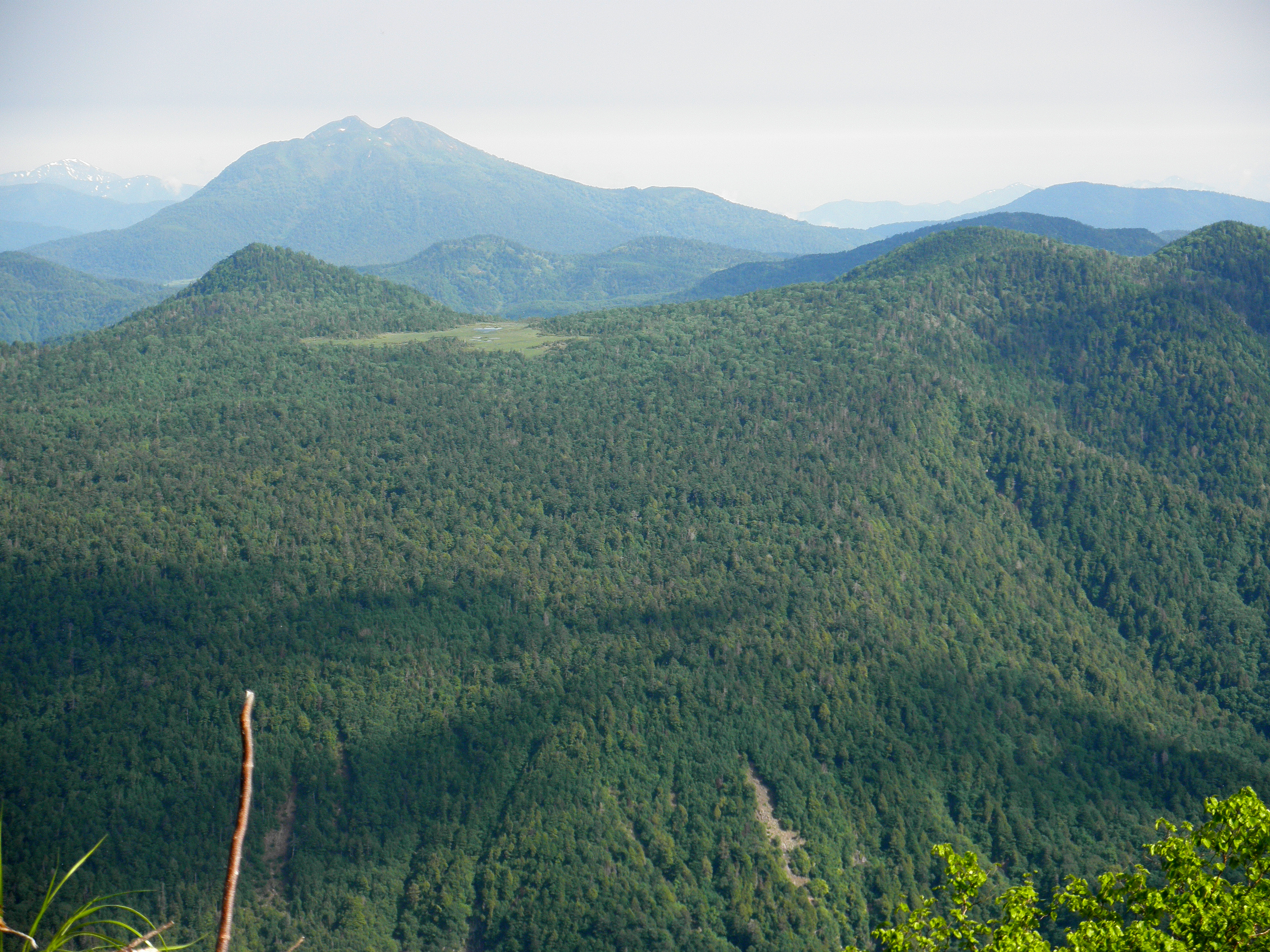 Kinunuma Volcano seen from the Southeast. Kinunuma (mountain top marsh) on the left. See also Geological Survey of Japan: Kinu Numa